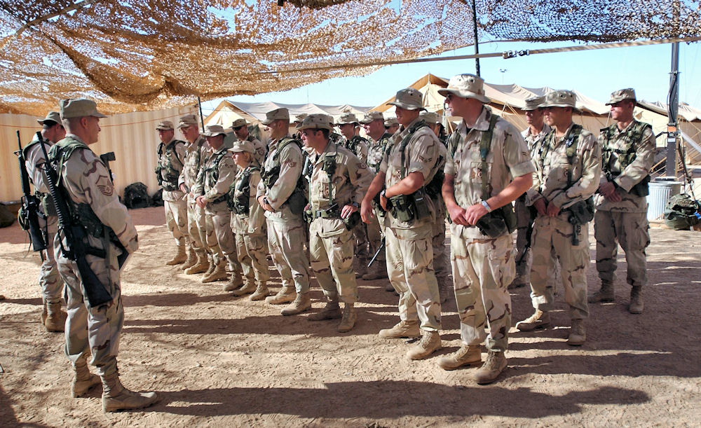 Air Force security forces from the 405th Air Expeditionary Wing listen to instruction during guard mount at an Operation Enduring Freedom location. A guard mount is conducted to brief security forces troops before a shift change.